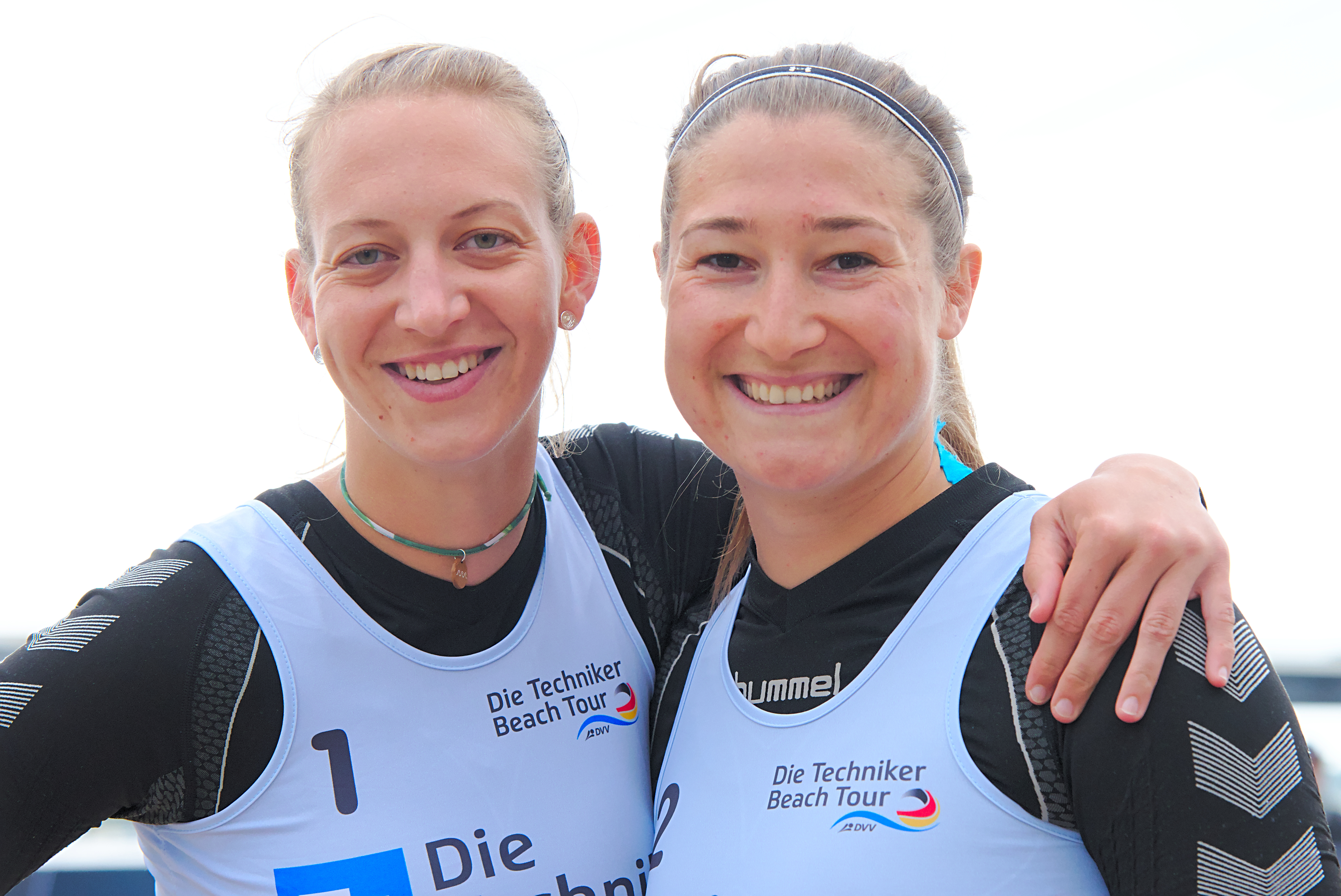 The German beach volleyball players Natascha Niemczyk (left) und Sabrina Karnbaum (right) at the Techniker Beach Tour tournament 2018 in Düsseldorf, Germany